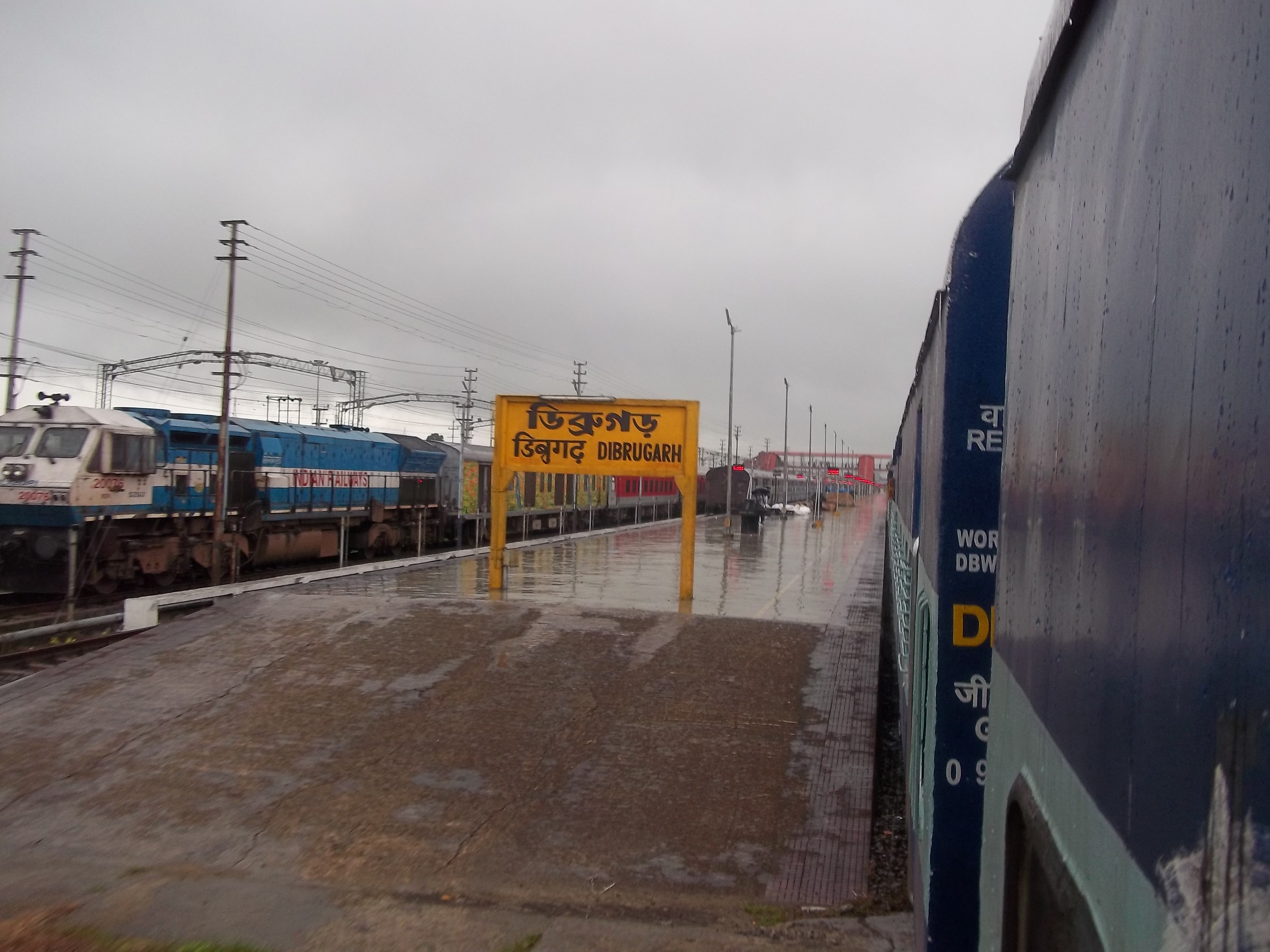 This is the biggest Railway Station in the entire North east of India Situated in Assam Dibrugarh District with 18 lines